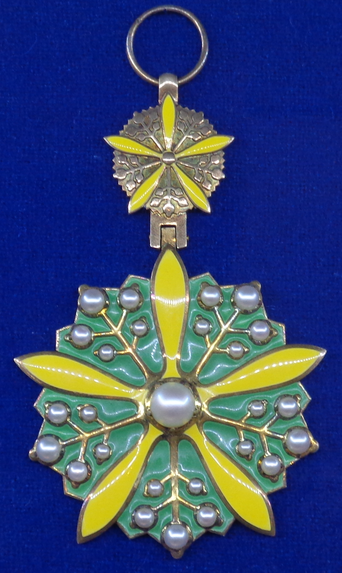 Order of the Orchid Blossom, badge for the Grand Cordon class. Empire of Manchukuo. The exhibition of the Tallinn Museum of Orders of Knighthood, Estonia.